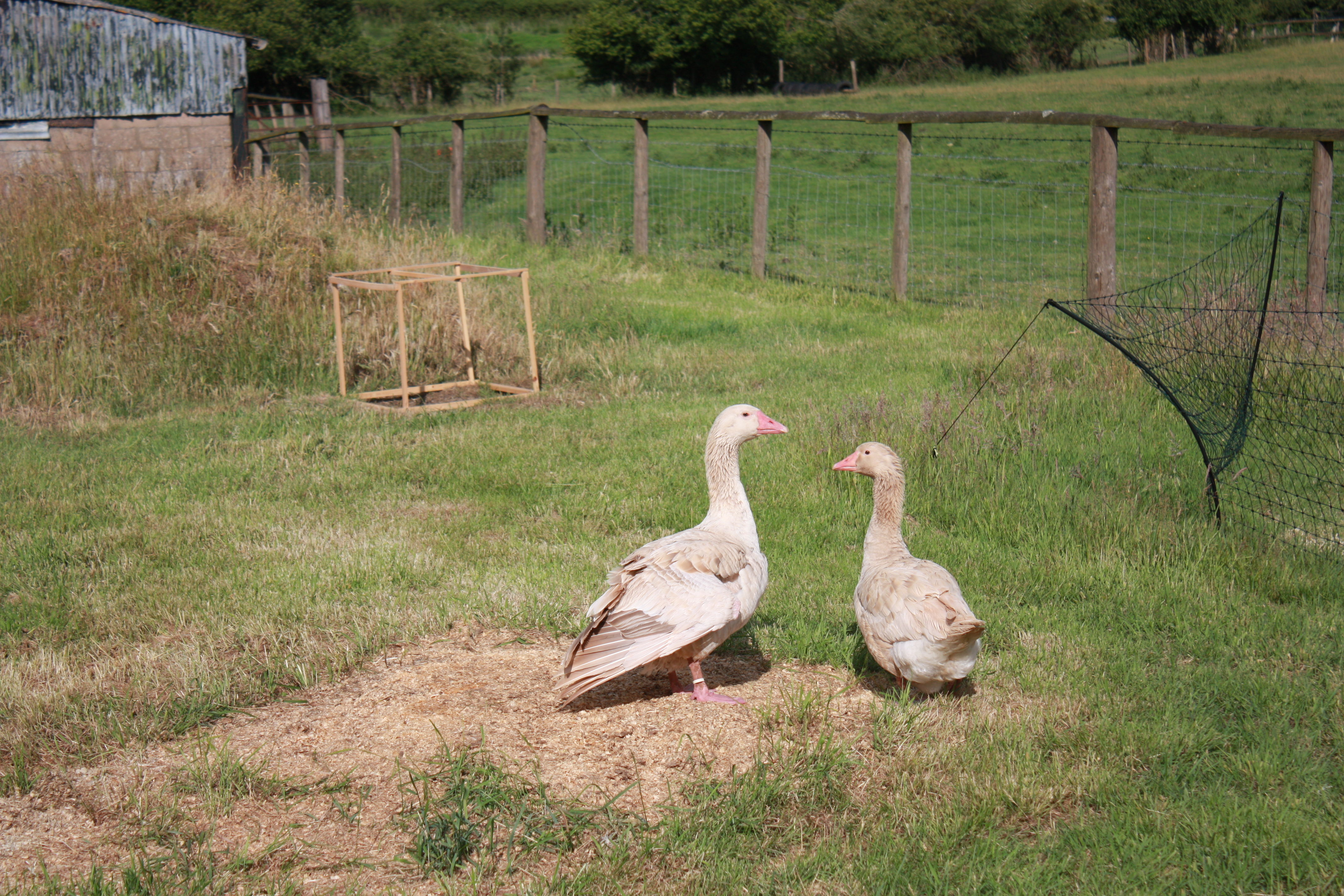 A Brecon Buff goose and gander. The correct pink beaks and feet can be seen.